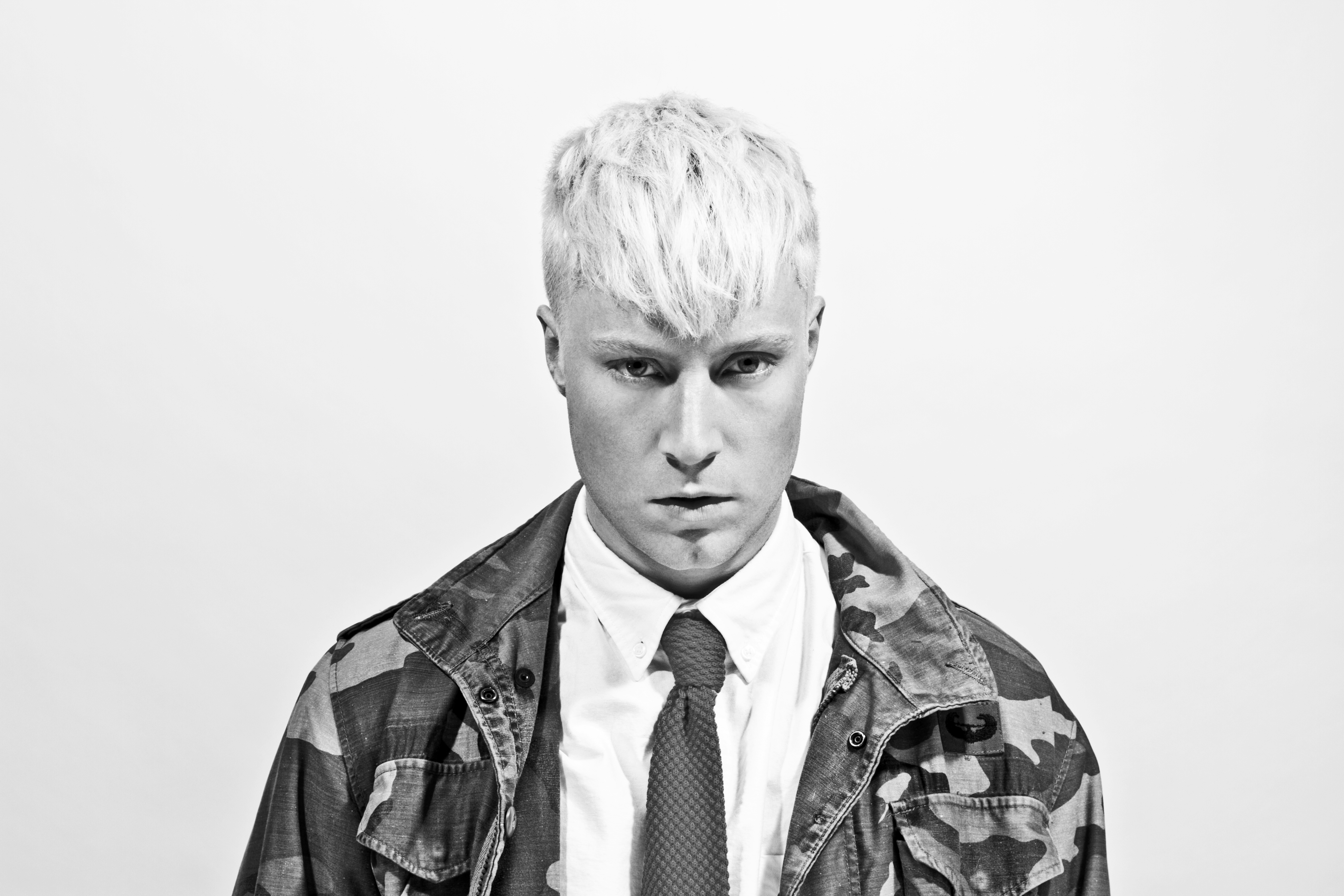 Swedish artist Ola Svensson, born Feb 23, 1986